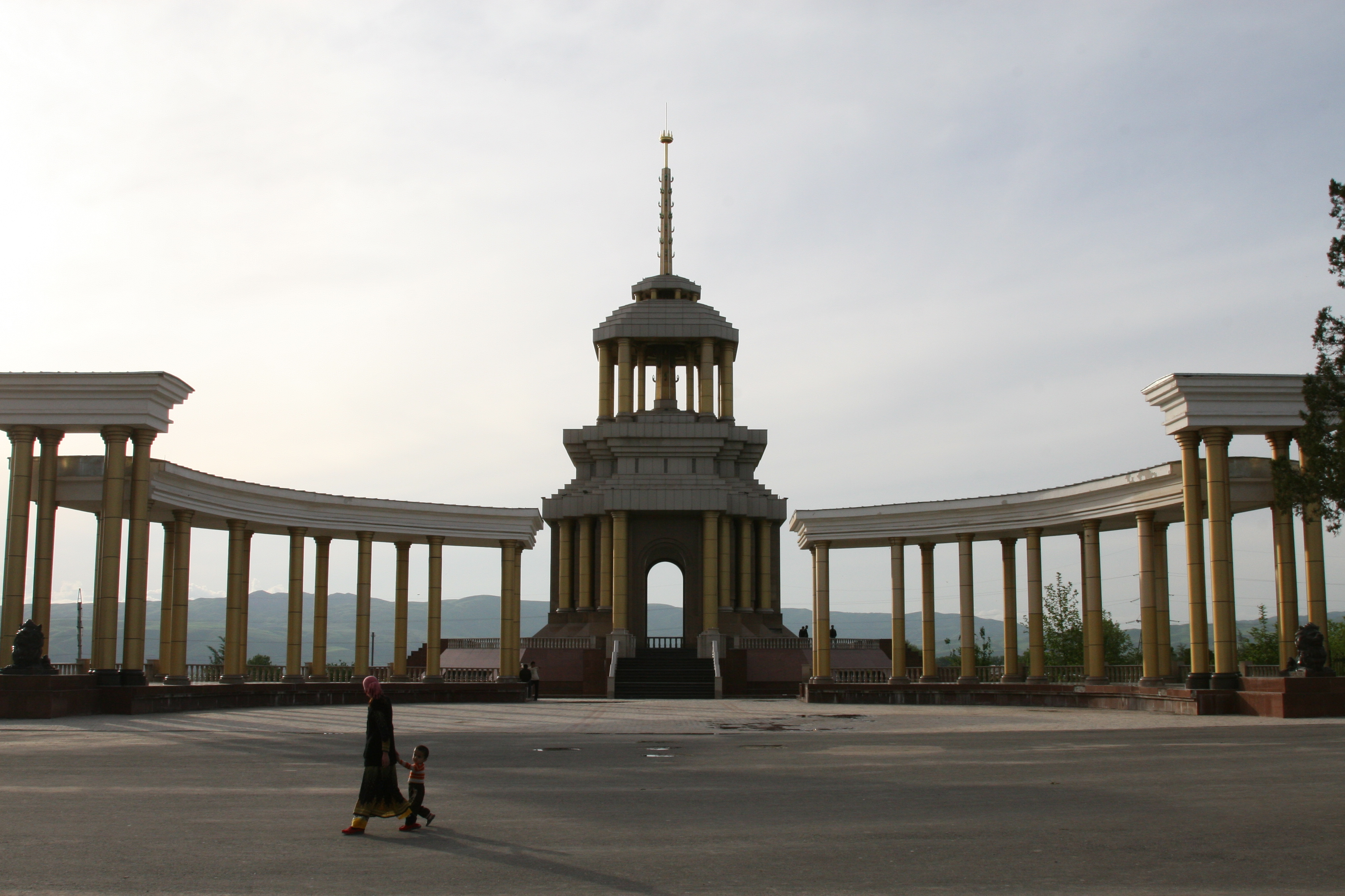 Kulob 2700 th Anniversary monument